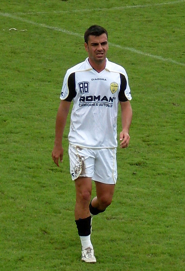 Marian Cristescu playing for FC Brasov